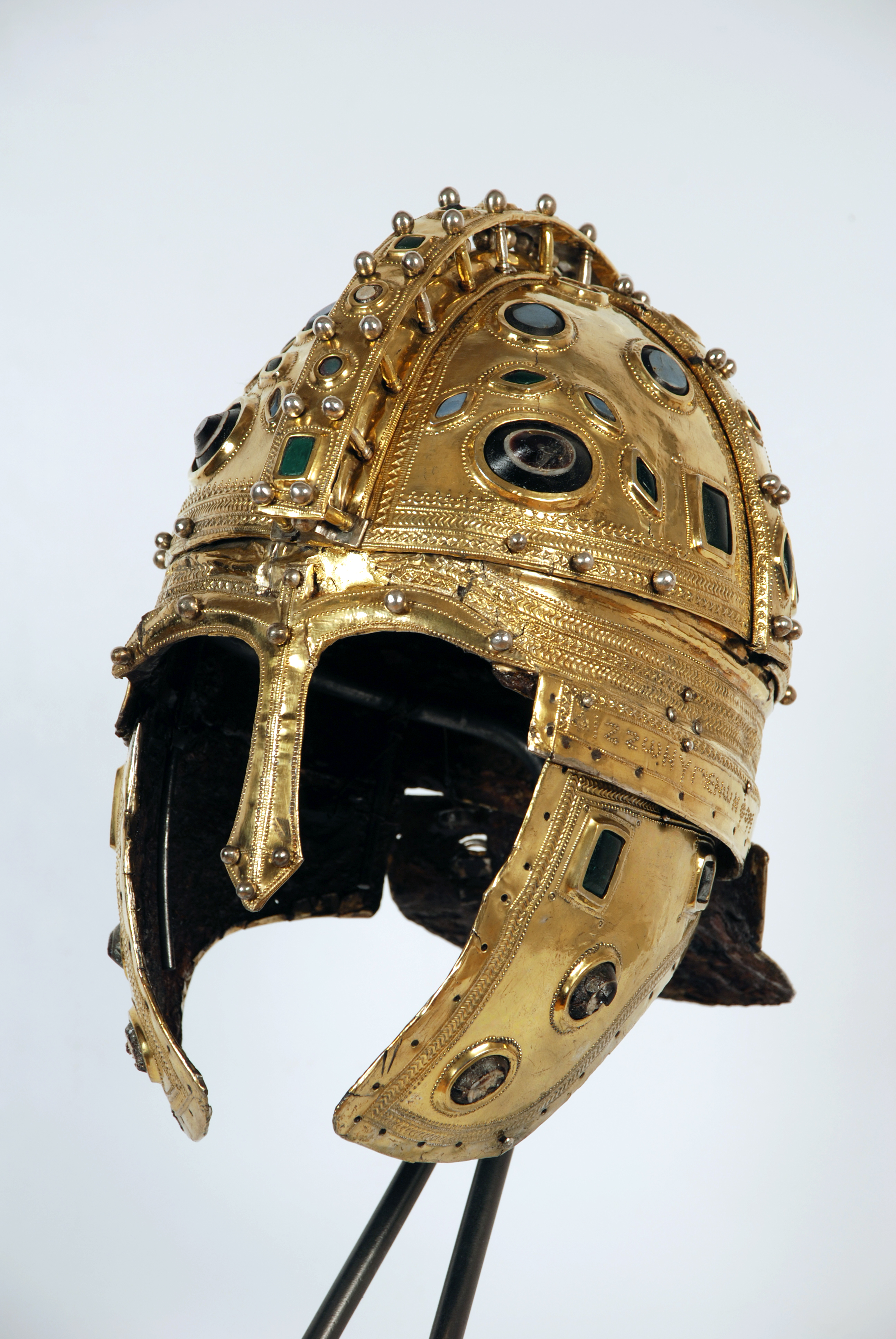 Late Roman helmet (Berkasovo/1), Berkasovo type, early 4th century. Found in 1955 near the village of Berkasovo (Šid, Vojvodina, Serbia) Srpski (latinica): Kasnoantički rimski šlem (Berkasovo/1), tip Berkasovo, druga decenija 4. veka. Pronađen 1955. u okolini sela Berkasovo kod Šida